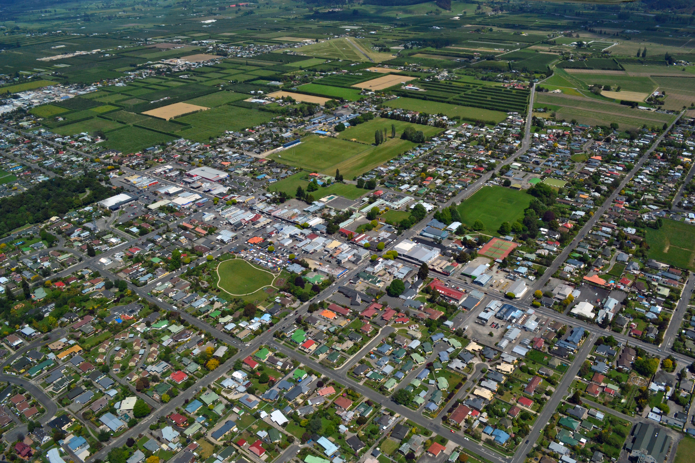 Photo taken of Motueka town centre from 1500 feet, in a plane to the north-east. Looking toward the south-west and the airport.